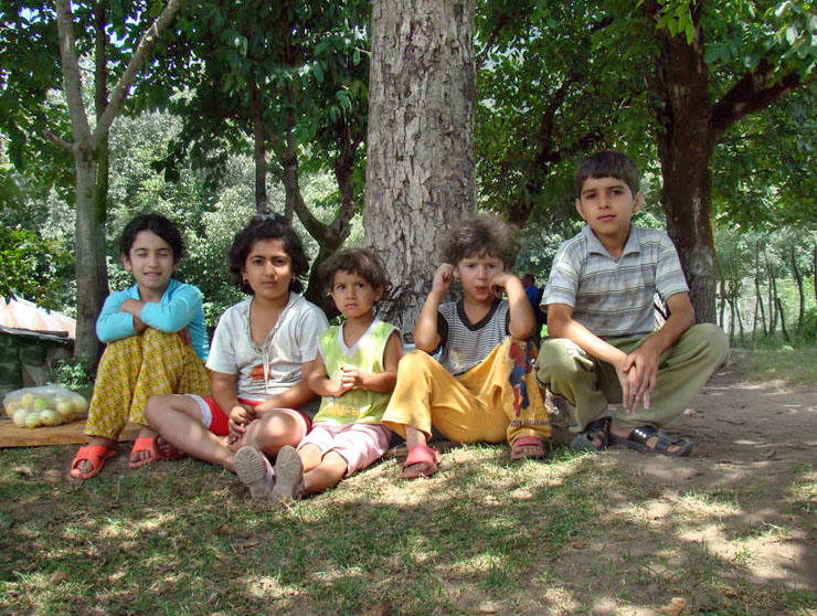 laton Waterfall